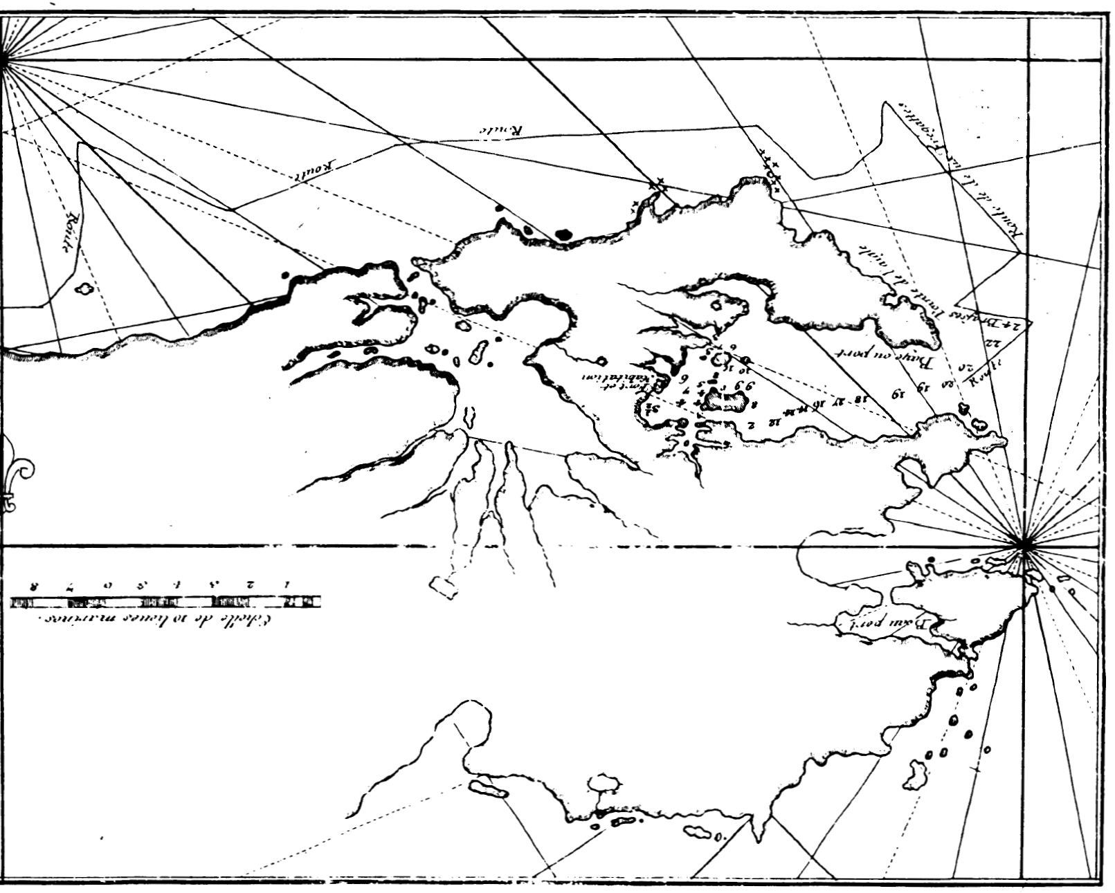 Map of northeastern East Falkland, Falkland Islands (Dom Pernety, 1769). The originally South-Up map is turned upside down here for an easier coastline recognition.